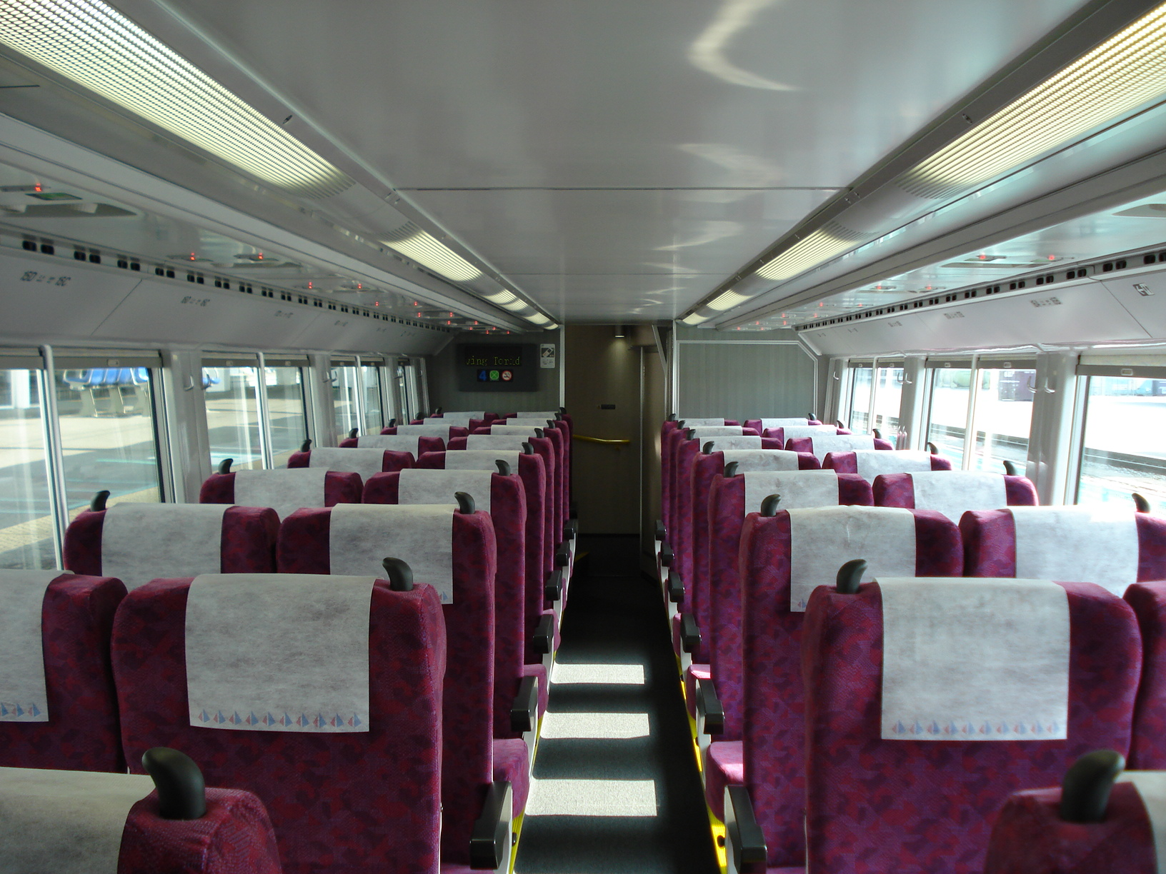 Interior view of the lower deck of a JR East E531 series Green Car (Car no. Saro E530-20) (Taken at Tsuchiura Station on the Joban Line)